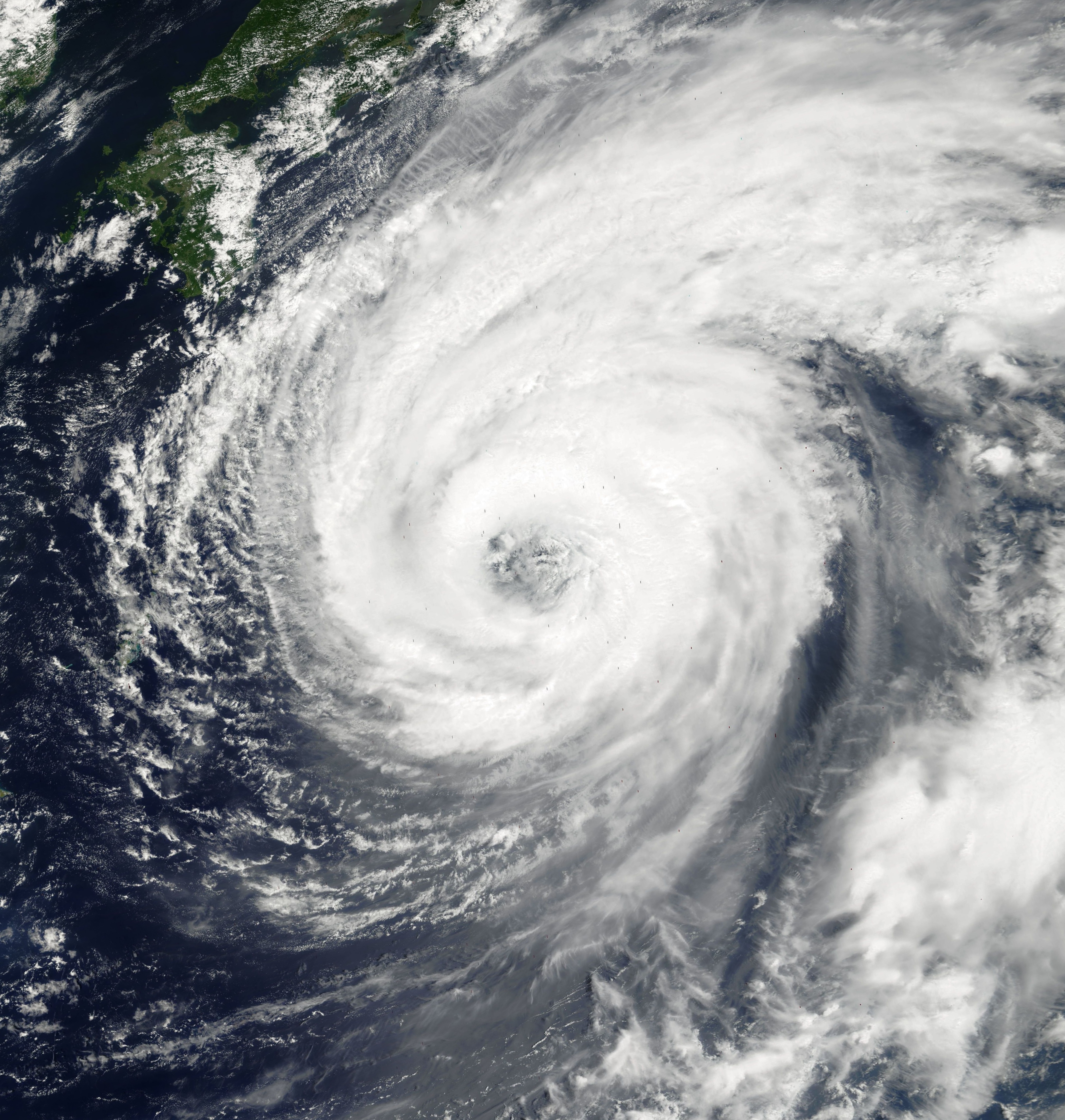 Typhoon Pabuk on August 19, 2001